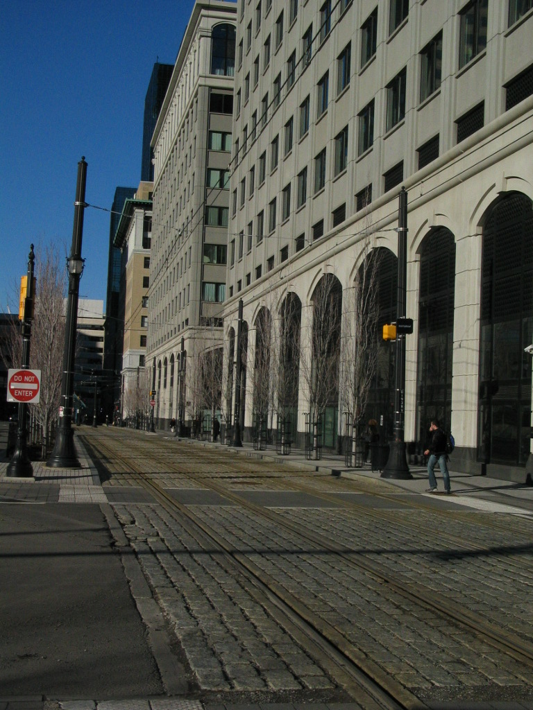 HBLR tracks in Jersey City